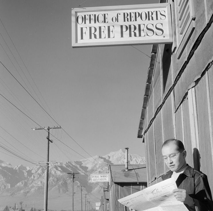 Photo shows editor Roy Takeno reading a copy of the Manzanar Free Press in front of the newspaper office at the Manzanar War Relocation Center; with mountains in the background.